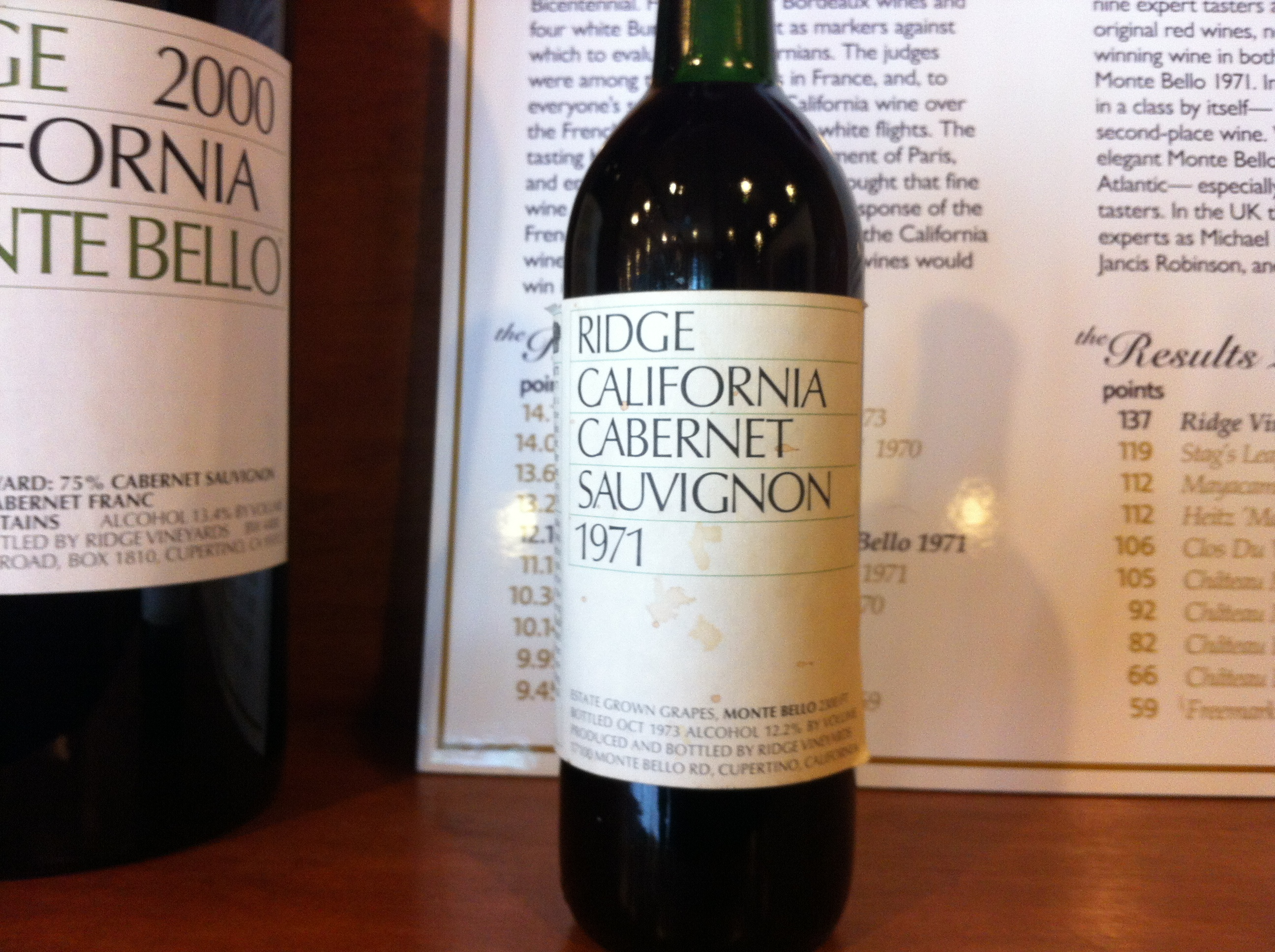 The historic 1971 Monte Bello Cabernet Sauvignon from Ridge Vineyards that competed in the 1976 Judgement of Paris tasting competition.